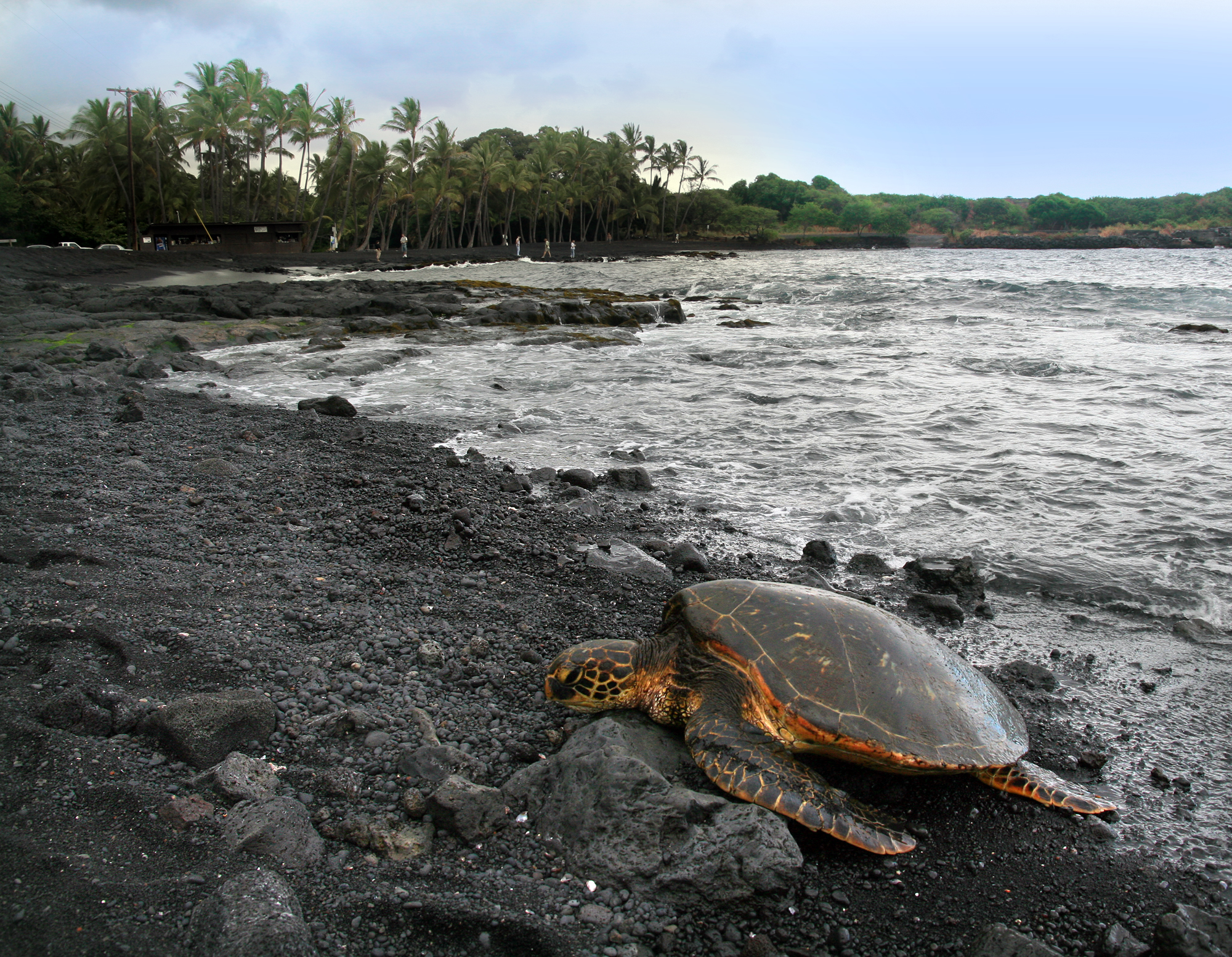 Green Sea Turtle (Chelonia mydas) is basking on Punaluu Beach.